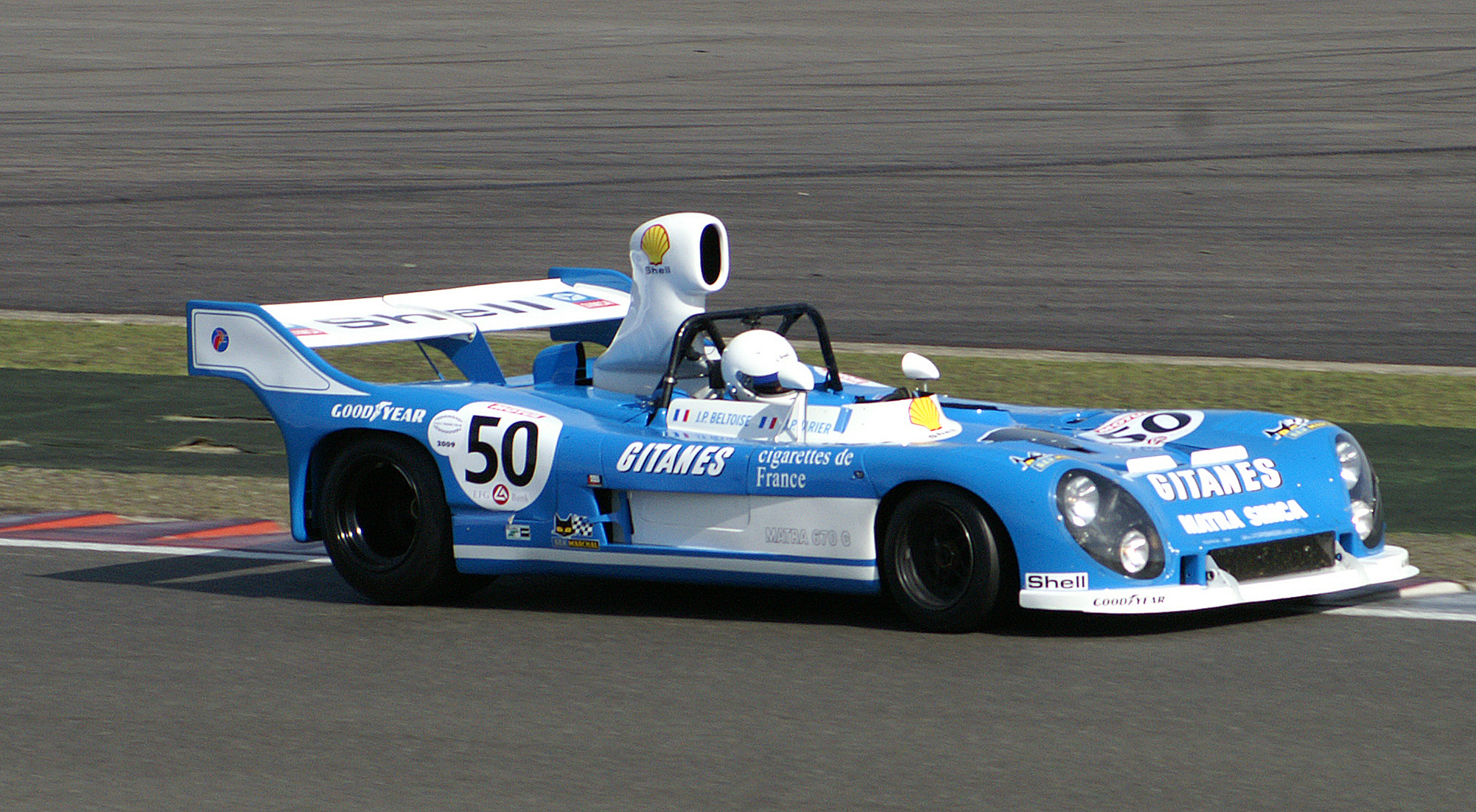 Matra 670C at Silverstone Classic Endurance Car Racing in September 2009